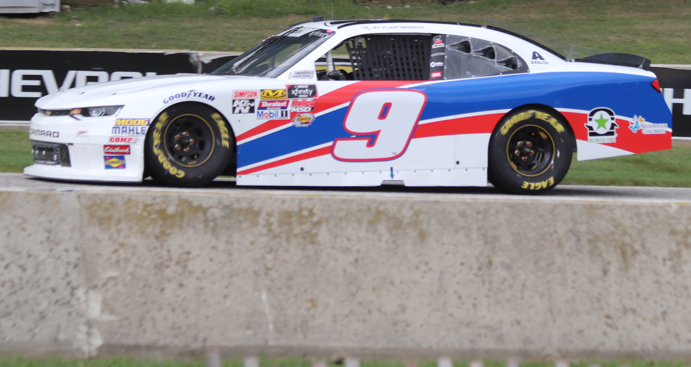 The Chevrolet Camaro of Tyler Reddick at the NASCAR Xfinity Series Johnsonville 180.